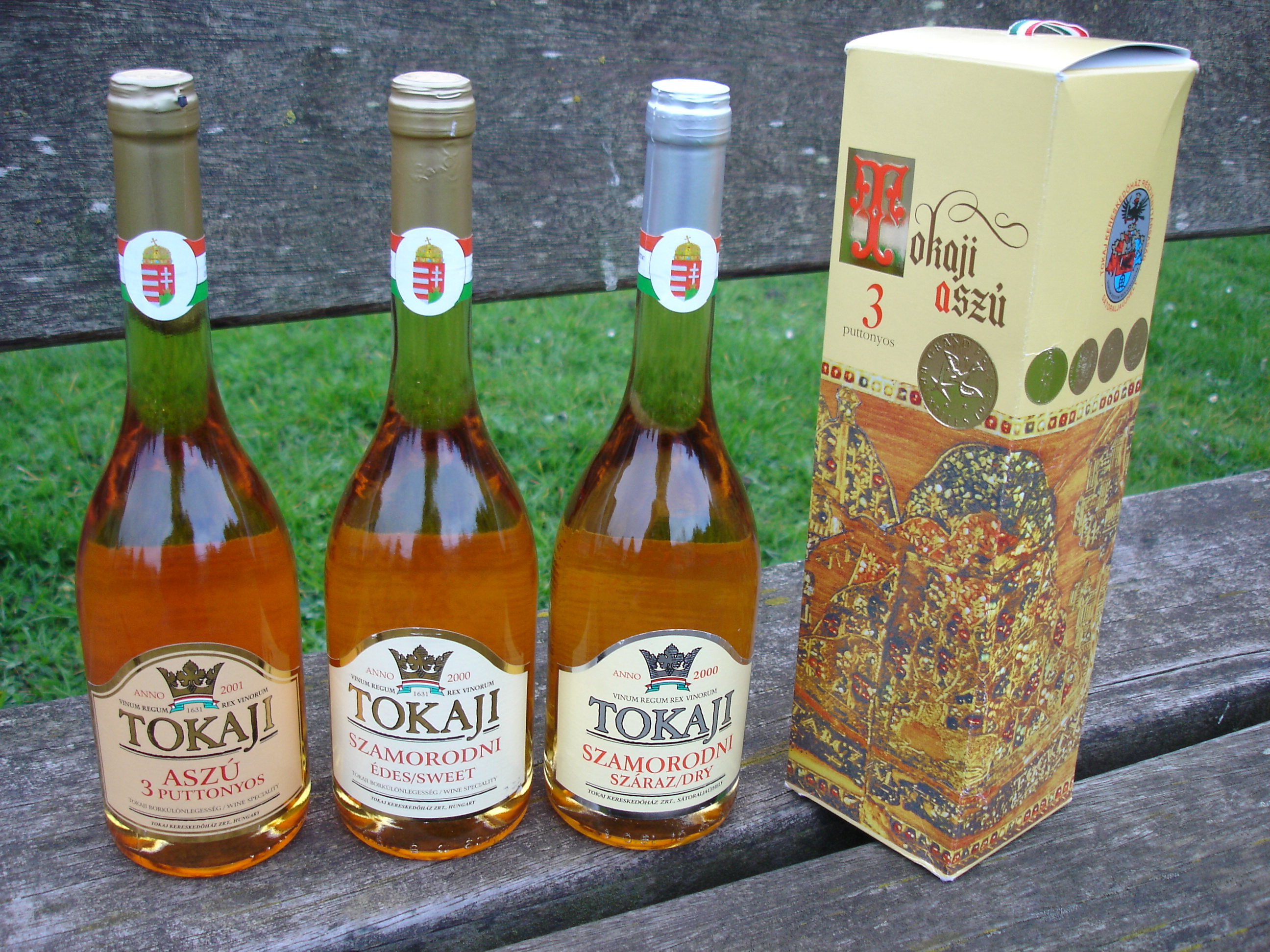 Three full Tokay bottles and one gift box containing a Tokay bottle.